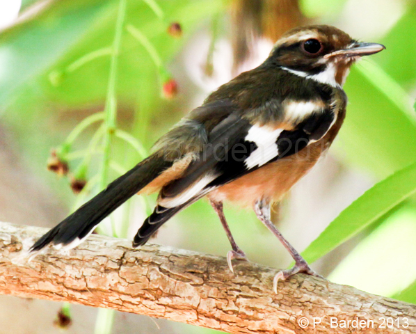 Buff-sided robin juvenile plumage Borrooloola area NT 2013